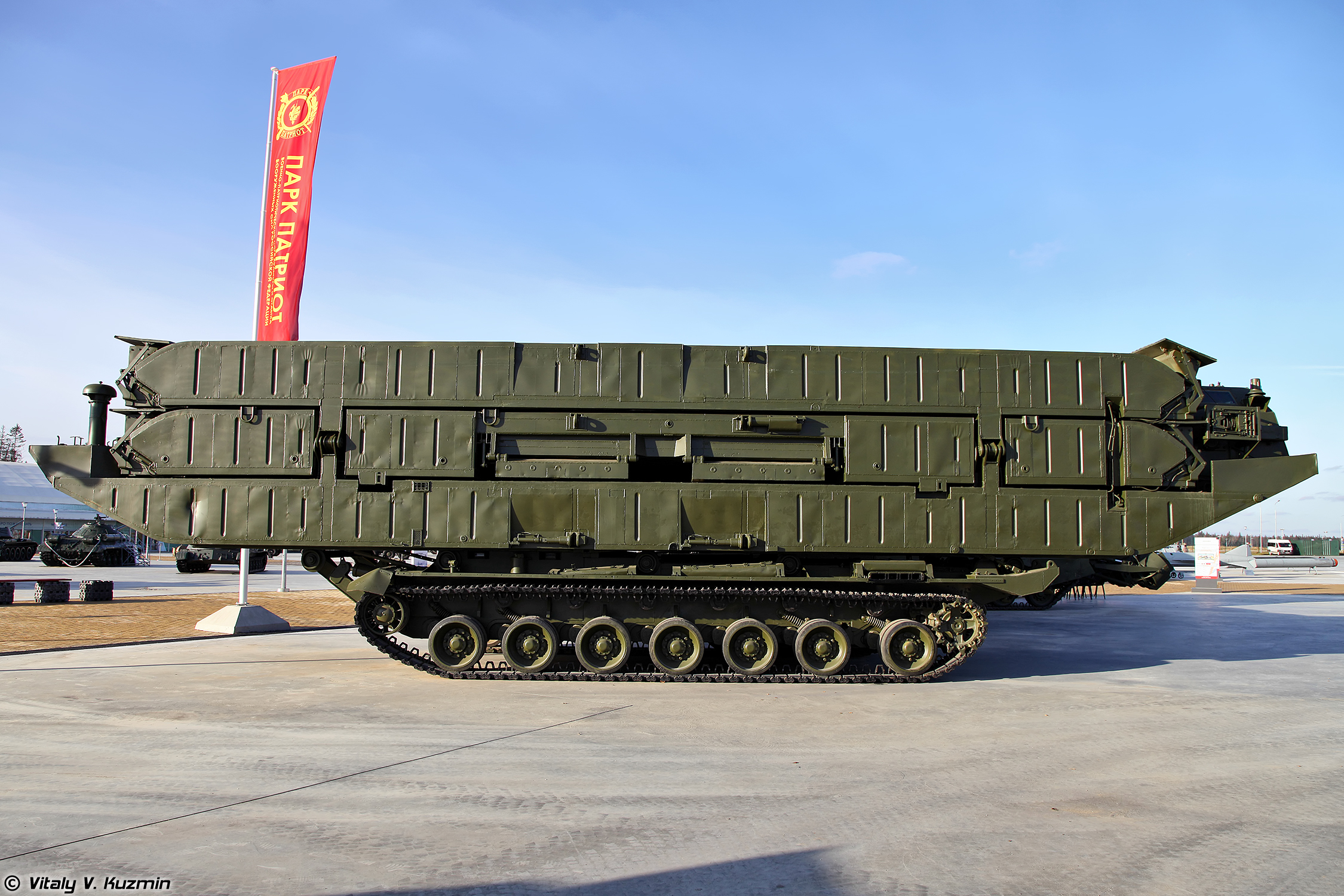 PDP item 561P amphibious bridging vehicle